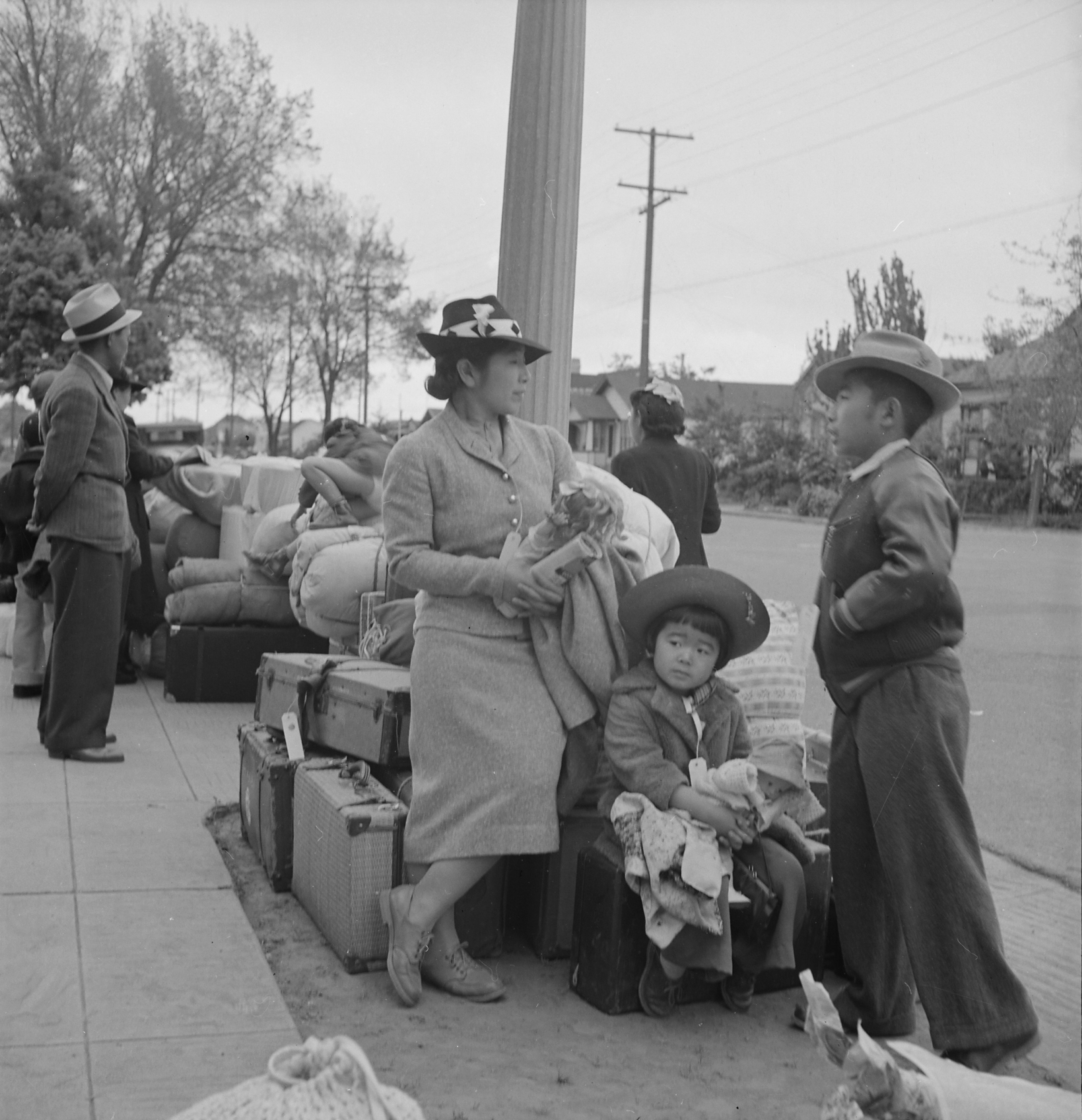 Scope and content: The full caption for this photograph reads: Hayward, California. With baggage piled on sidewalk, evacuees of Japanese ancestry await evacuation bus. Evacuees will be housed in War Relocation Authority centers for the duration.